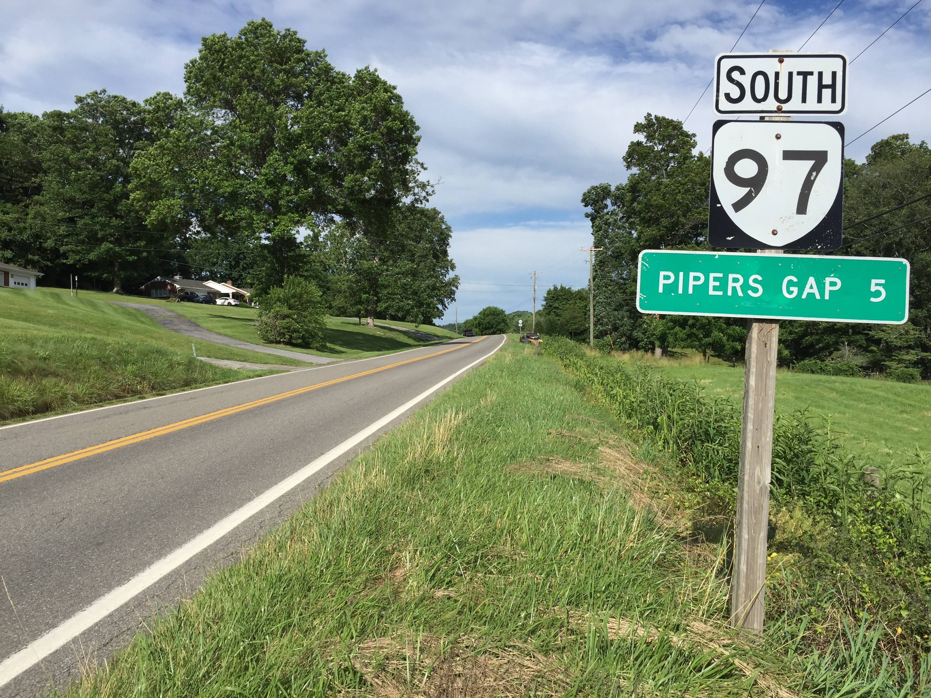 View south along Virginia State Route 97 (Pipers Gap Road) just south of Coal Creek Road (Virginia State Secondary Route 608) in southwestern Carroll County, Virginia